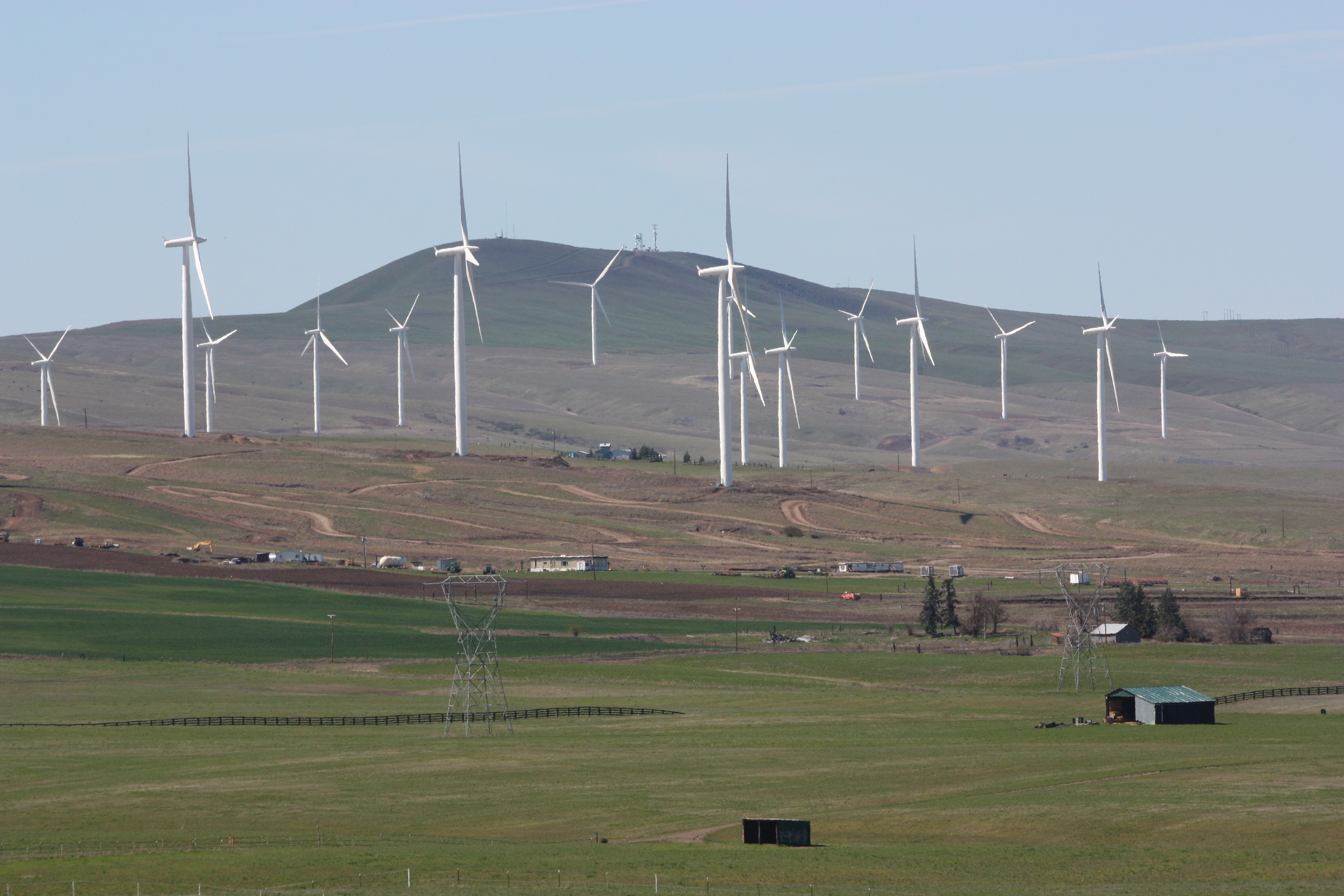 Wind farm on Columbia Hills, Windy Flats 190 MW EOZ2007-01, Cannon Power Group; high-voltage transmission tower Viewpoint location: Viewpoint, U.S. Route 97 in Washington Viewpoint elevation: 527 meter (1729 ft) View direction: 222° Location source: Google Earth Location Datum: WGS84